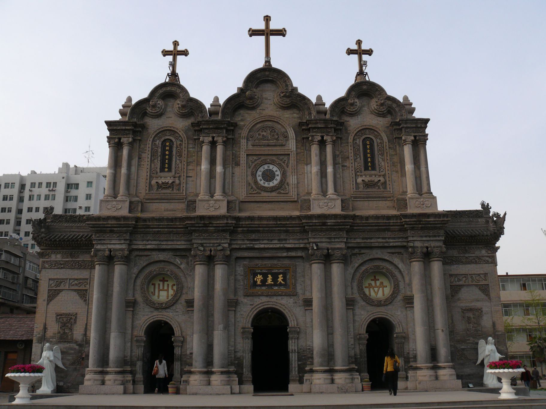 Saint-Francis' cathedral of Xi'an (Shaanxi, China)